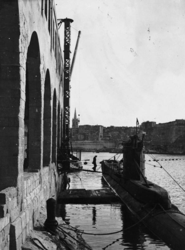 British U class submarine HMSM UNBEATEN moored alongside a dock in Malta.